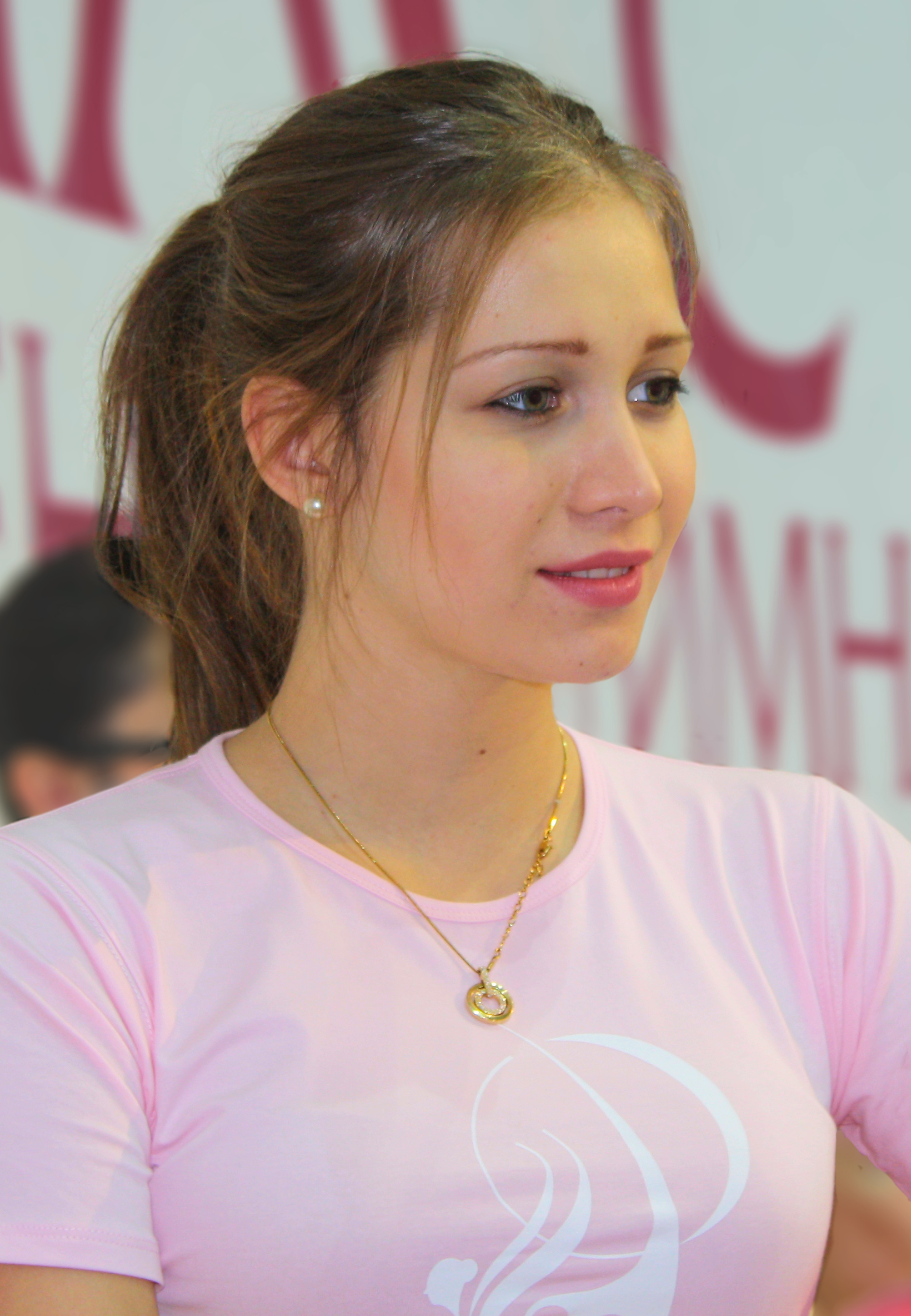 Uliana Donskova, a Russian group rhythmic gymnast, at the New Year's master class for rhythmic gymnasts in Moscow, Russia.